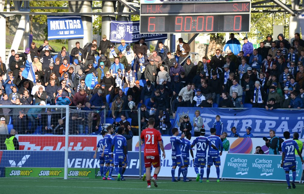 Football fans of the HJK.